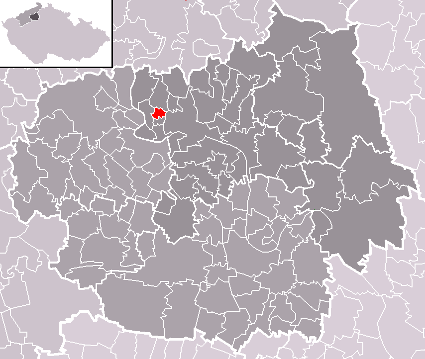 Location of Malíč municipality within Litoměřice District and administrative area of Litoměřice as a Municipality with Extended Competence.